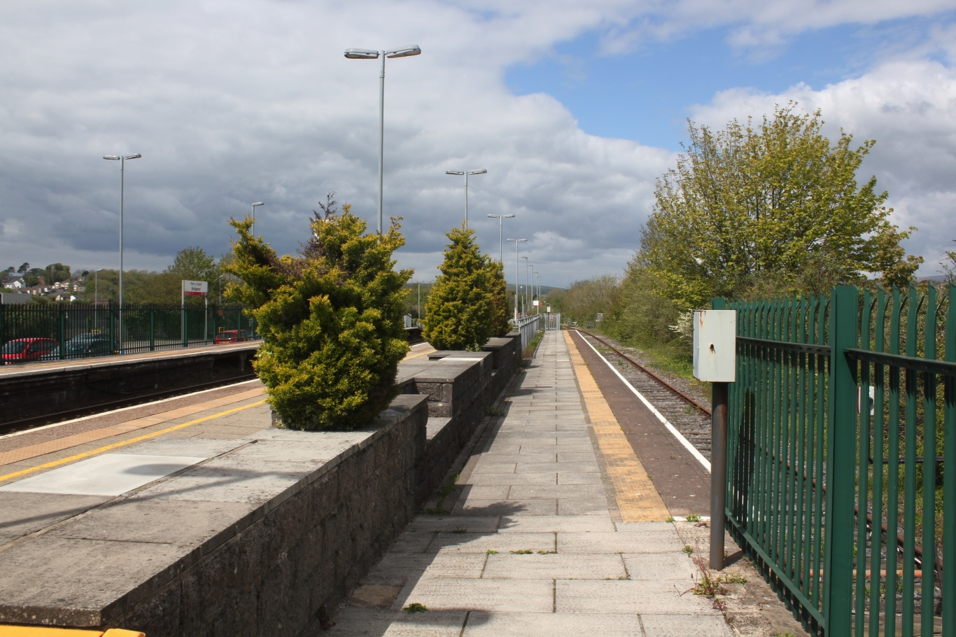 Platform 3 at Bridgend station is a bay platform that can be used by trains on the Maesteg branch line. At one time it used to extend through the station so that it could be used by trains from the branch to the main line but these now need to share platforms 1 and 2 with Swansea services.